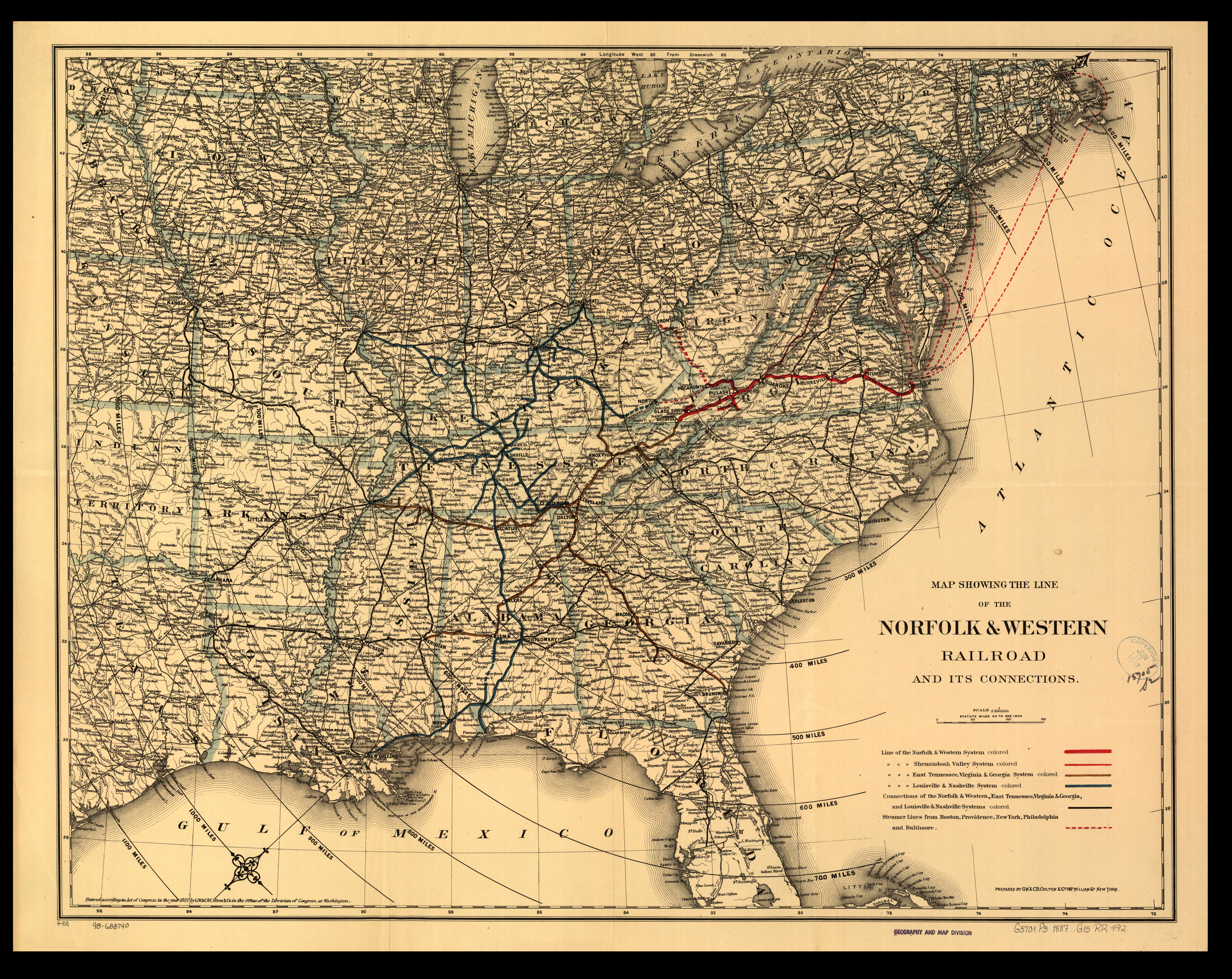 Map showing the Norfolk & Western Railway and its connections. New York, 1887